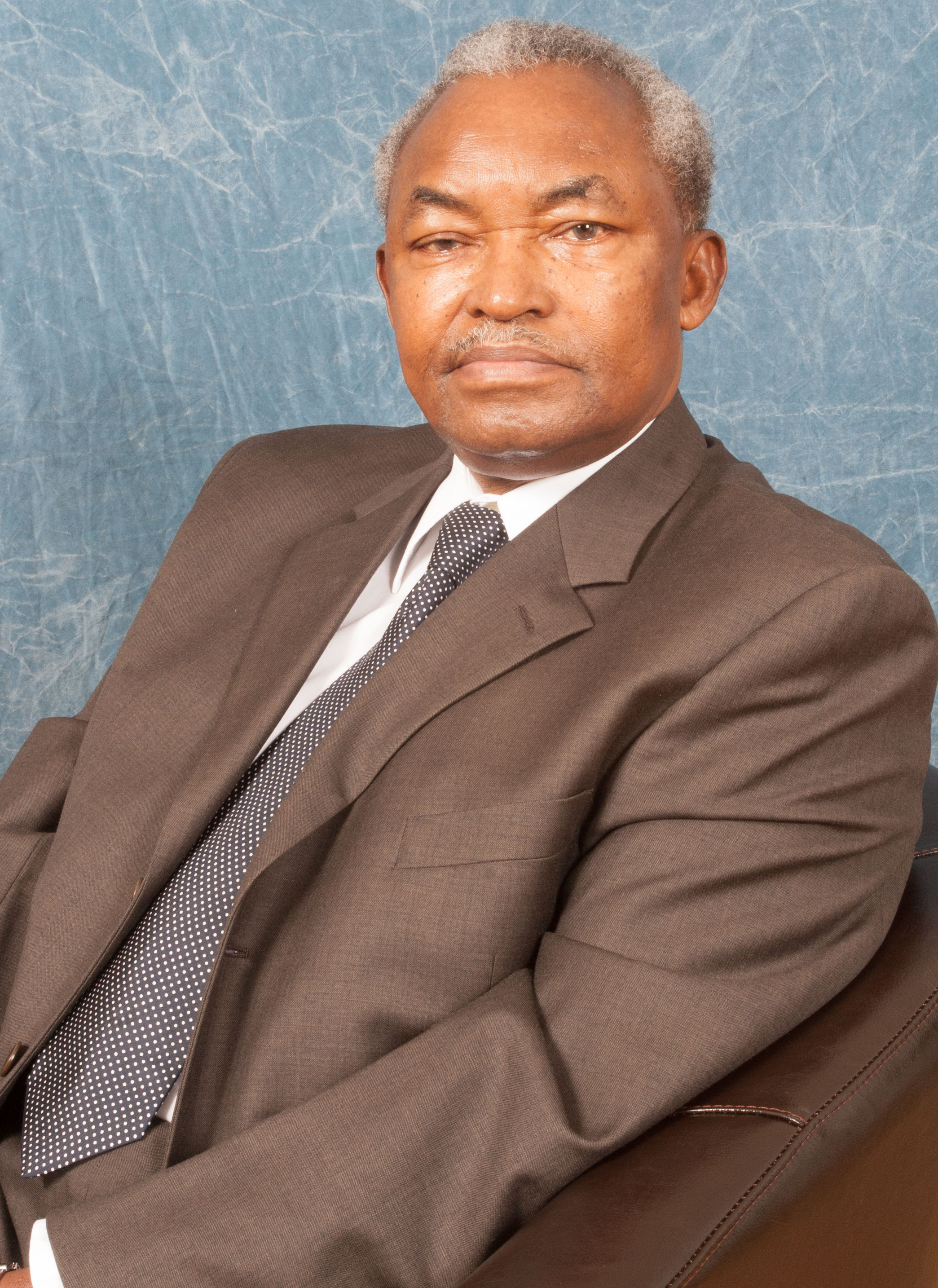 Cleopa David Msuya former Prime Minister and Vice President of the United Republic of Tanzania